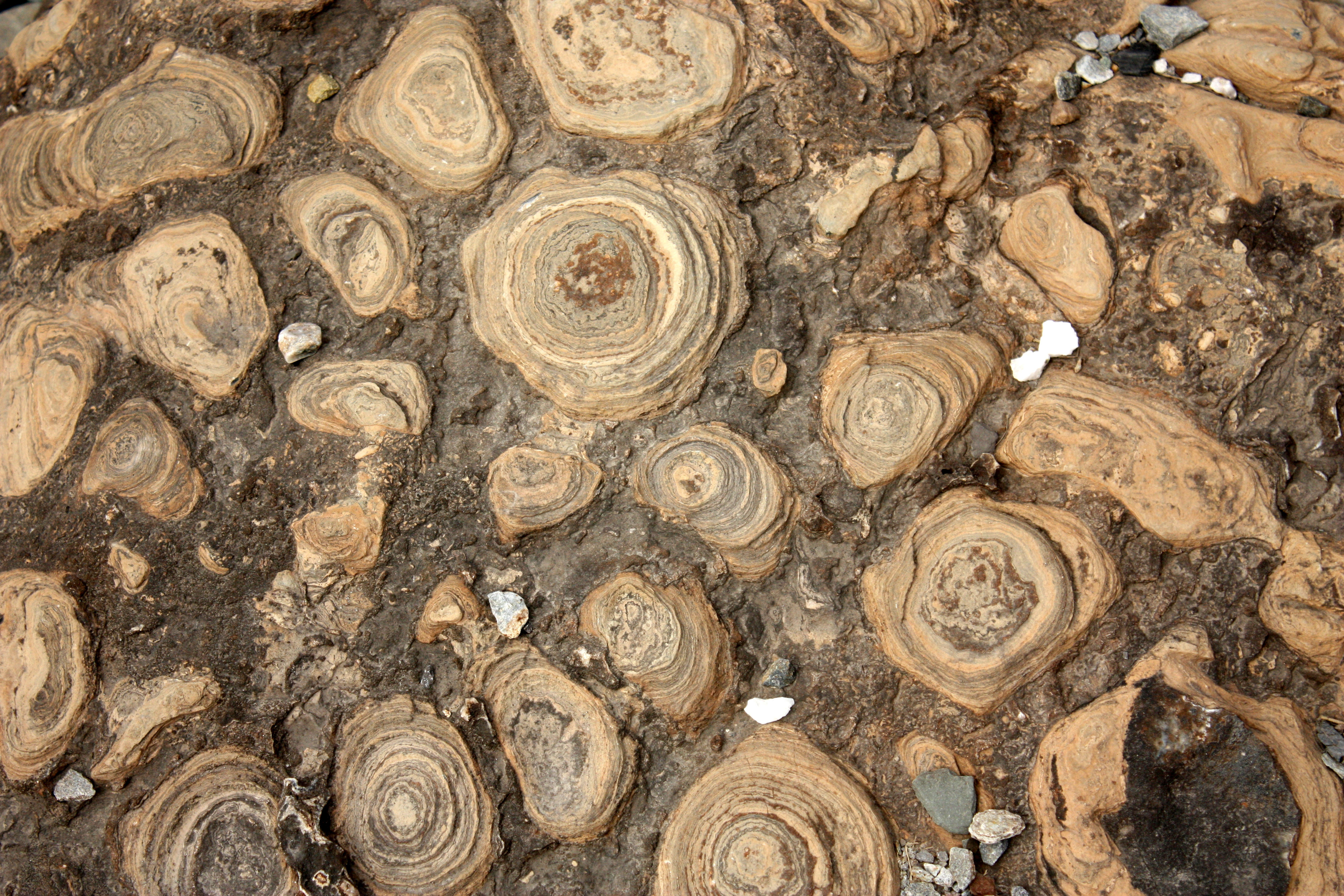 Stromatolites fossils in a glacial erratic droped in the Parc des Laurentides, near Laterrière. It came from Albanel Lake, North-East from Chibougamau, Québec. The piece of rock now belongs to the Geological Garden of Université Laval, since its donation by Jean-Guy Belley in 2003.